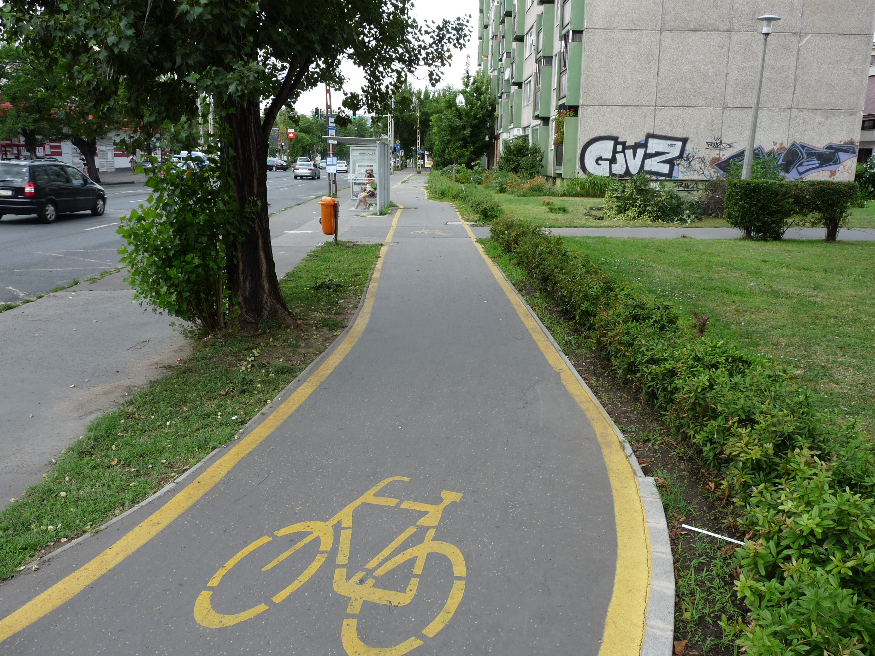 Bicycle road in Dráva street, panel building with graffiti on the right, bus stop on the left.